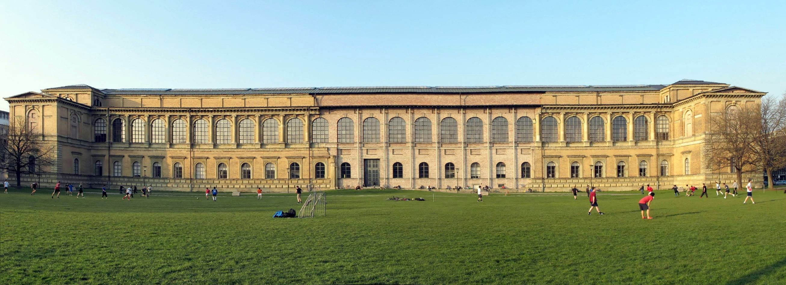 Munich, Museum "Old Pinakothek"